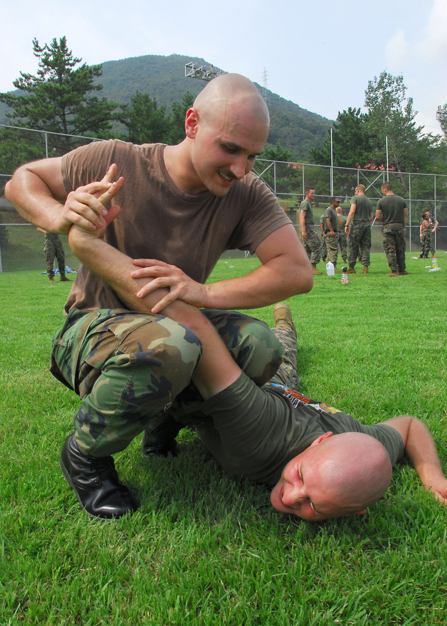 imcom.korea.army.mil CHINHAE, Republic of Korea (Aug. 18, 2009) Master-At-Arms 3rd Class Matthew Motley, of Alton, Ill., trains with Marines from Fleet Anti-terrorism Security Team, Company Pacific (FASTPAC) on Marine Corps martial arts techniques on the baseball field at Commander, Fleet Activities Chinhae (CFAC). Fleet Anti-terrorism Security Team companies maintain forward-deployed platoons at Navy installations around the world in order to quickly respond to crises and are frequently tasked to provide anti-terrorism and weapons training to other security personnel. (U.S. Navy photo by Mass Communication Specialist 1st Class Bobbie G. Attaway).